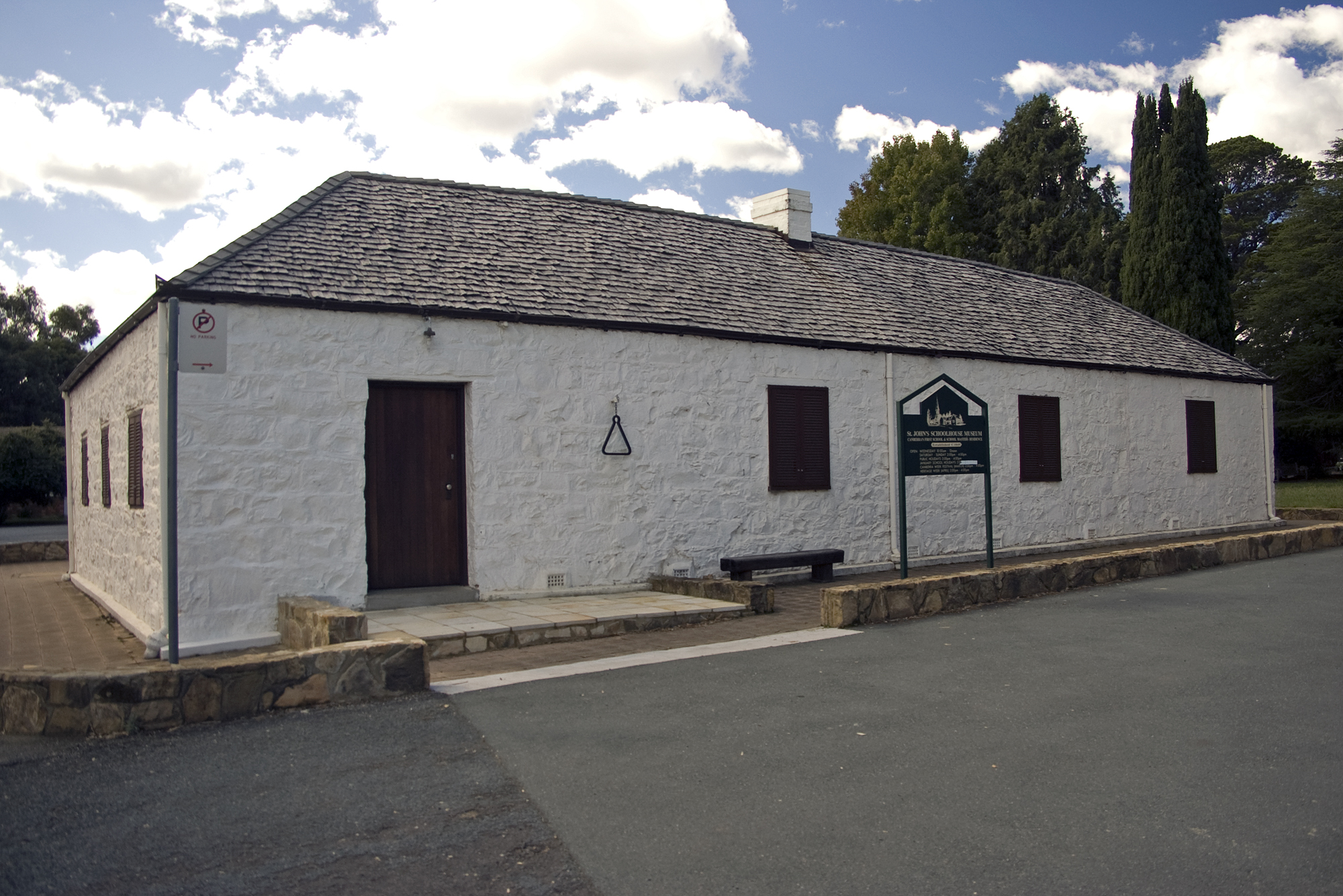 St John's Schoolhouse Museum located at St John the Baptist Church in Reid, Australian Capital Territory.